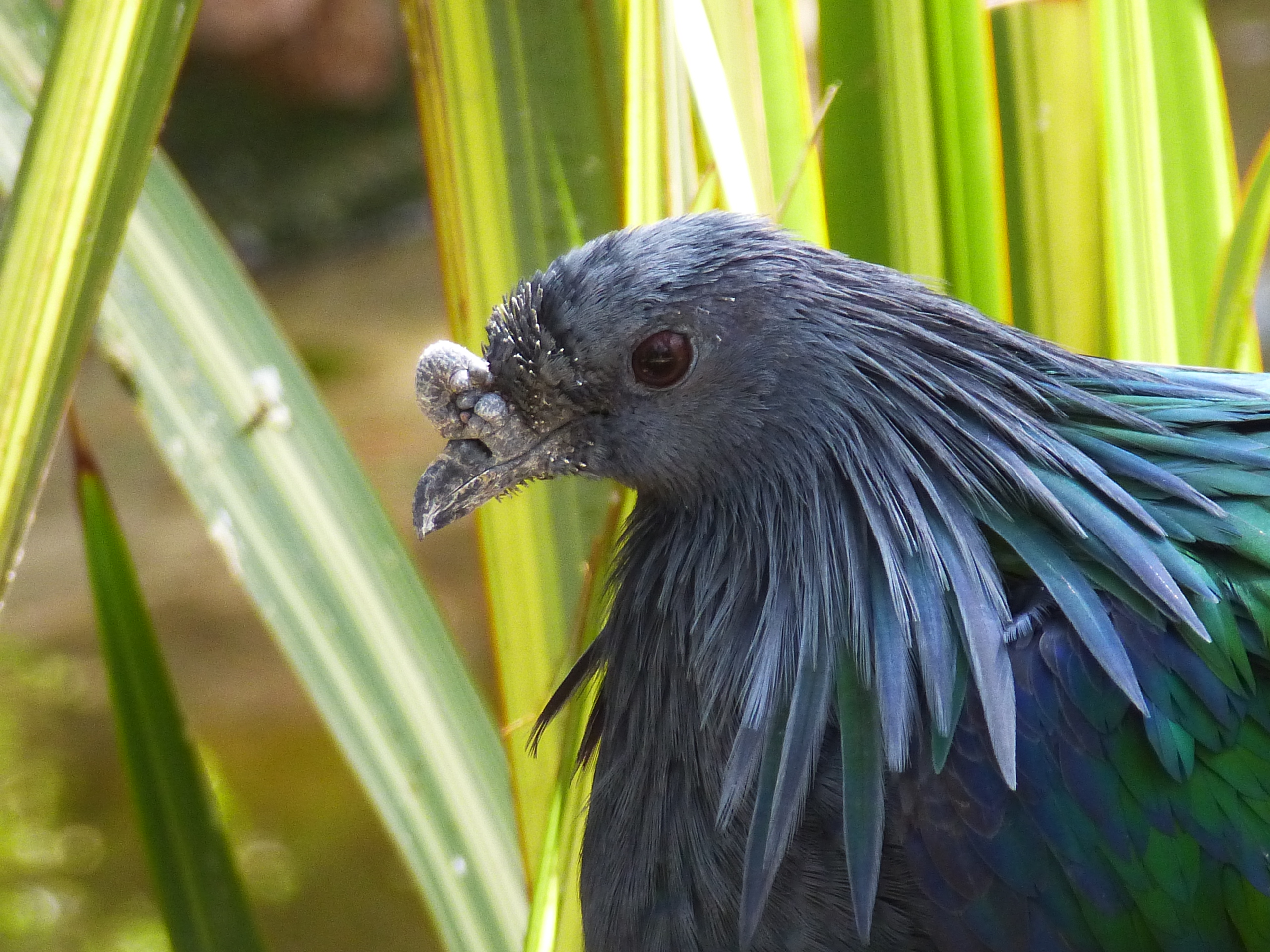 Caloenas nicobarica nicobarica in Lisbon Zoo - Side view - Portrait